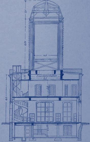 Draft of the Bremen advertising tower